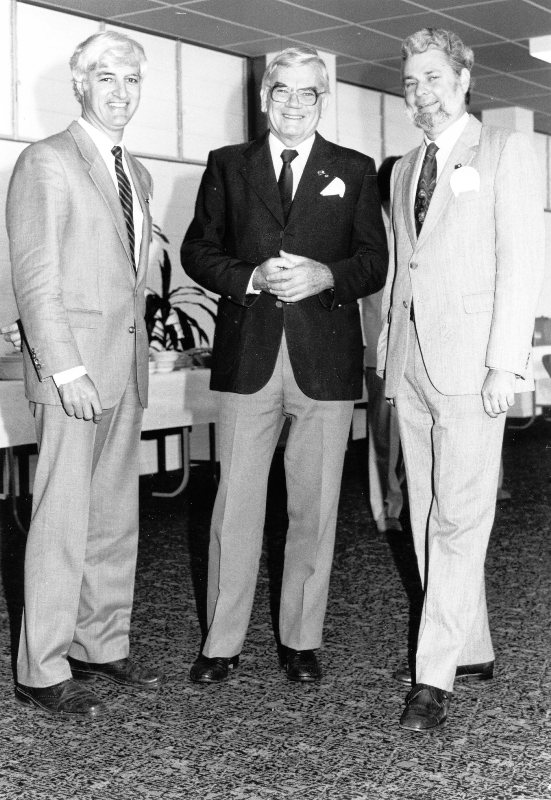 Professor Ken Black (centre), Vice Chancellor of James Cook University, honoured as a prominent North Queenslander on Queensland Day. He is accompanied by Minister for Community Services Bob Katter Jnr. and Townsville Mayor Alderman Mike Reynolds, ca. 1986.